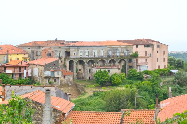 Acquavella (SA); Casal Velino